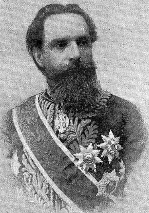 Čedomilj Mijatović, Nova iskra 24 (1899).